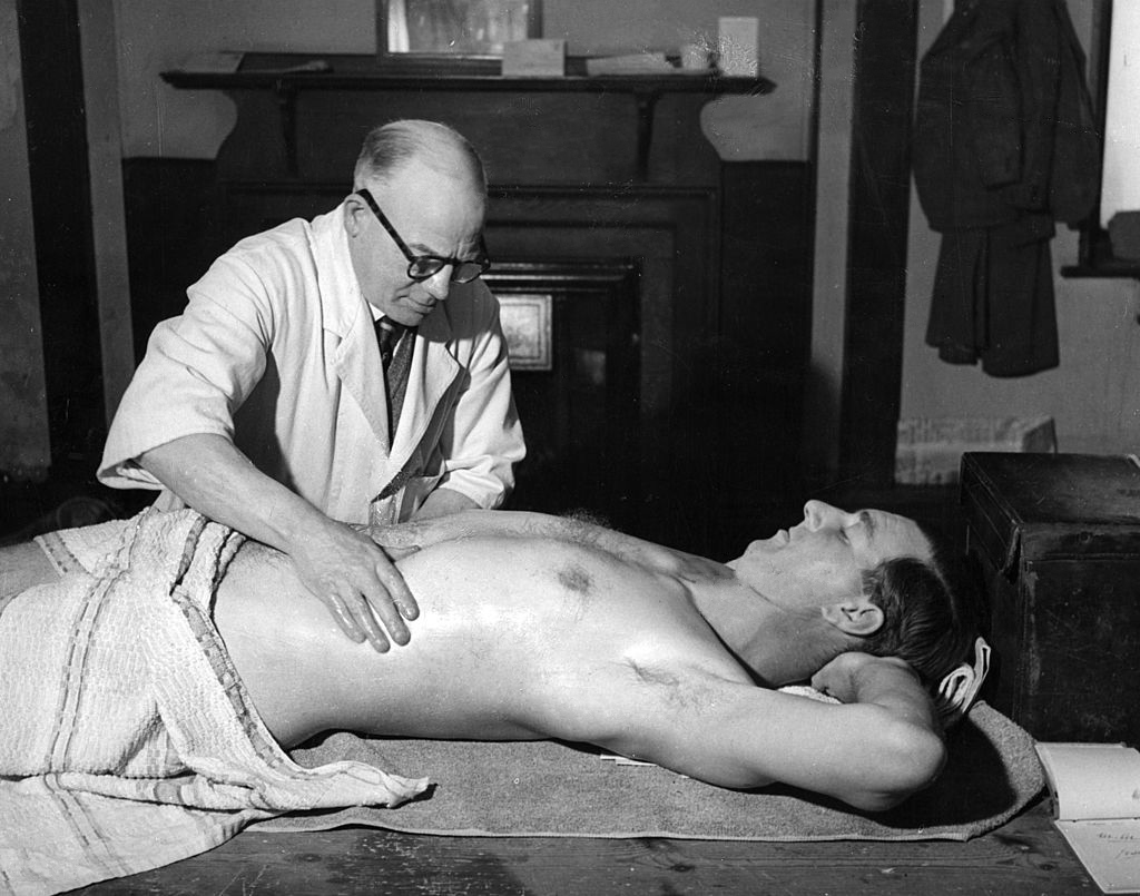 Norman Yardley, the Yorkshire cricketer is receiving a massage from Bill Heyhurst in preparation for the match against South Africa, being played at Old Trafford. Norman Yardley is the captain.